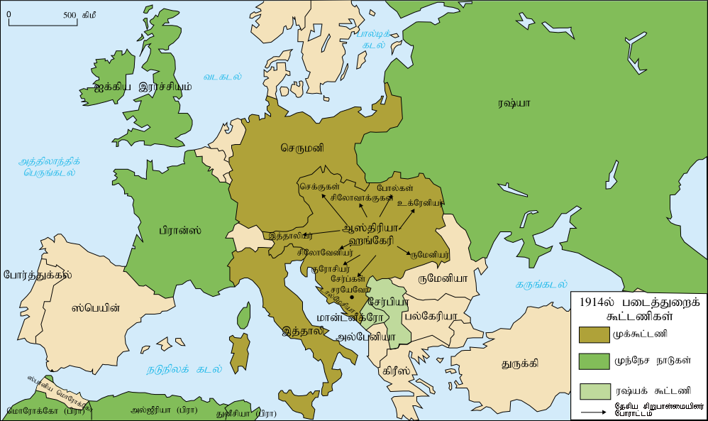 Map of military alliances of Europe in 1914.